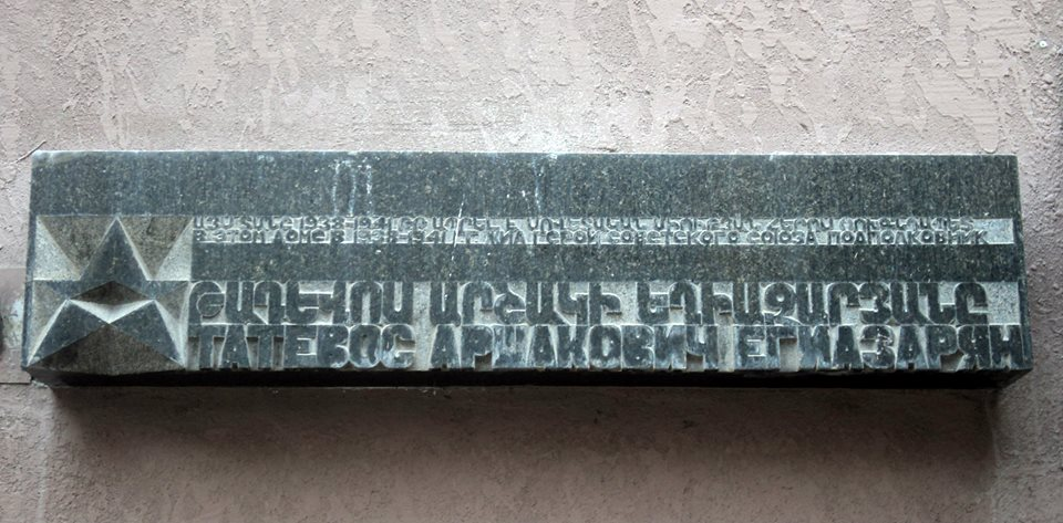 Tadevos Yeghiazaryan Plaque